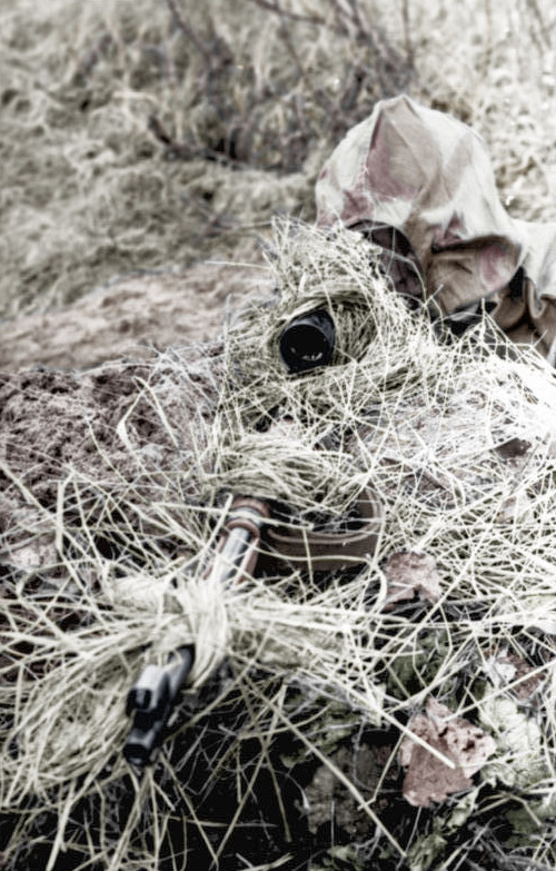 This is a retouched picture, which means that it has been digitally altered from its original version. Modifications: recolored. The original can be viewed here: Bundesarchiv Bild 101I-297-1728-13, Im Westen, Scharfschütze.jpg: . Modifications made by Ruffneck88. Im Westen, Scharfschütze Photographer KurthArchive description Description provided by the archive when the original description is incomplete or wrong. You can help by reporting errors and typos at Commons:Bundesarchiv/Error reports. Belgien/Frankreich.- Scharfschütze mit Gewehr und Zielfernrohr. Getarnt, auf dem Boden, zielend; PK 698Title Im Westen, Scharfschütze Depicted place Im WestenDate 1943date QS:P571,+1943-00-00T00:00:00Z/9Collection German Federal Archives Native nameDas BundesarchivLocationKoblenz (headquarters)Coordinates50° 20′ 32.71″ N, 7° 34′ 21.22″ E Established1946Web page control : Q685753 VIAF: 137346469 ISNI: 0000 0004 0555 2728 LCCN: n92025526 NLA: 36455393 Open Library: OL55798A WorldCat institution QS:P195,Q685753Current location Propagandakompanien der Wehrmacht - Heer und Luftwaffe (Bild 101 I)Accession number Bild 101I-297-1728-13 Source This image was provided to Wikimedia Commons by the German Federal Archive (Deutsches Bundesarchiv) as part of a cooperation project. The German Federal Archive guarantees an authentic representation only using the originals (negative and/or positive), resp. the digitalization of the originals as provided by the Digital Image Archive.